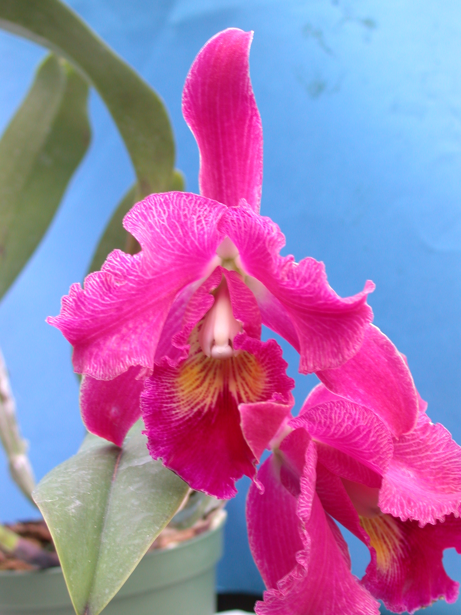 Brassolaeliocattleya Korat Sunset